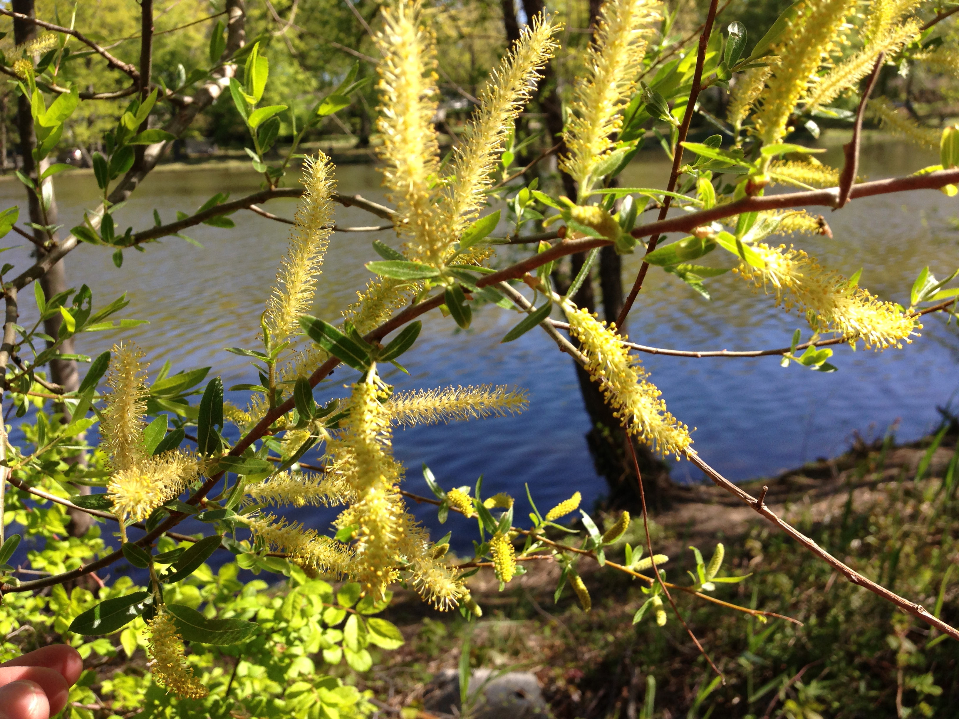 Black Willow catkins along Colonial Lake in Colonial Lake Park in Lawrence, New Jersey